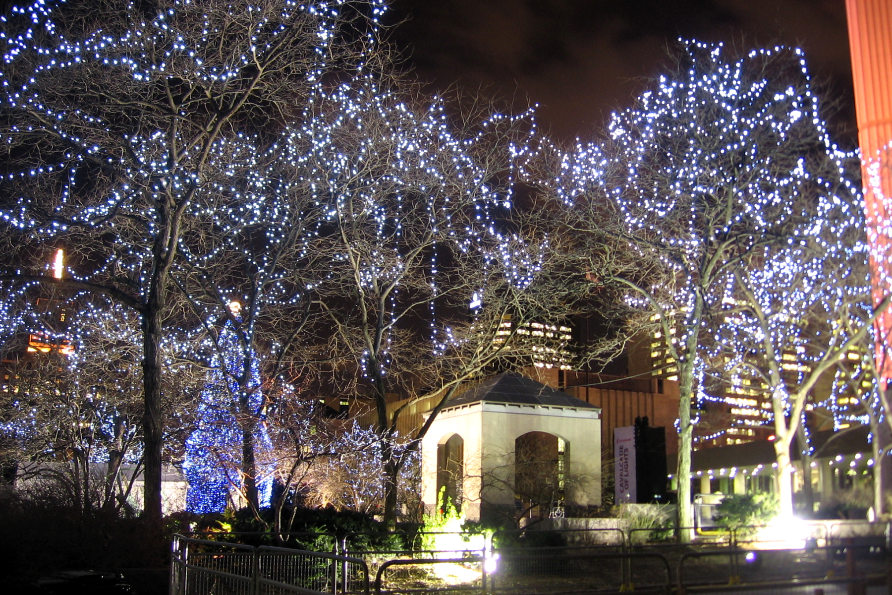 At Nathan Phillips Square, shot during a TPMG outing.Gazebo